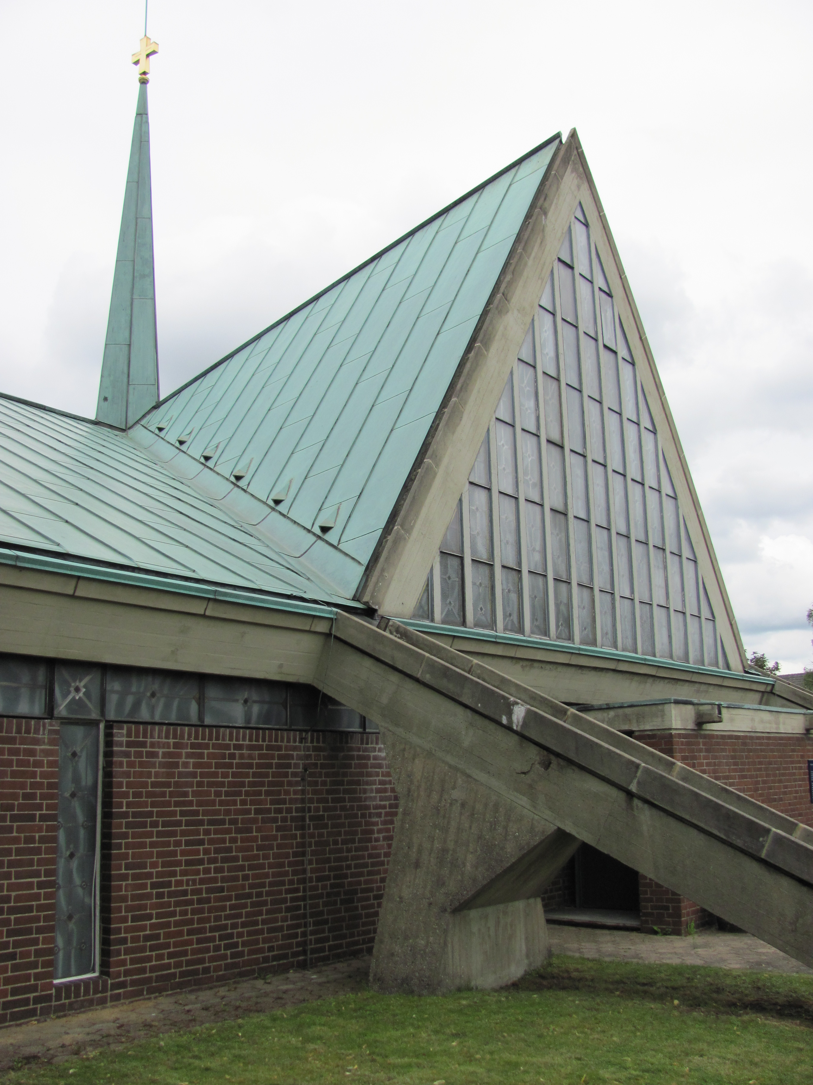 Church of the Holy Cross in Hamburg-Volksdorf, Germany This is a photograph of an architectural monument.